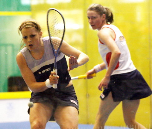 Vanessa Atkinson of Holland goes for a shot during her match with Vicky Botwright of England